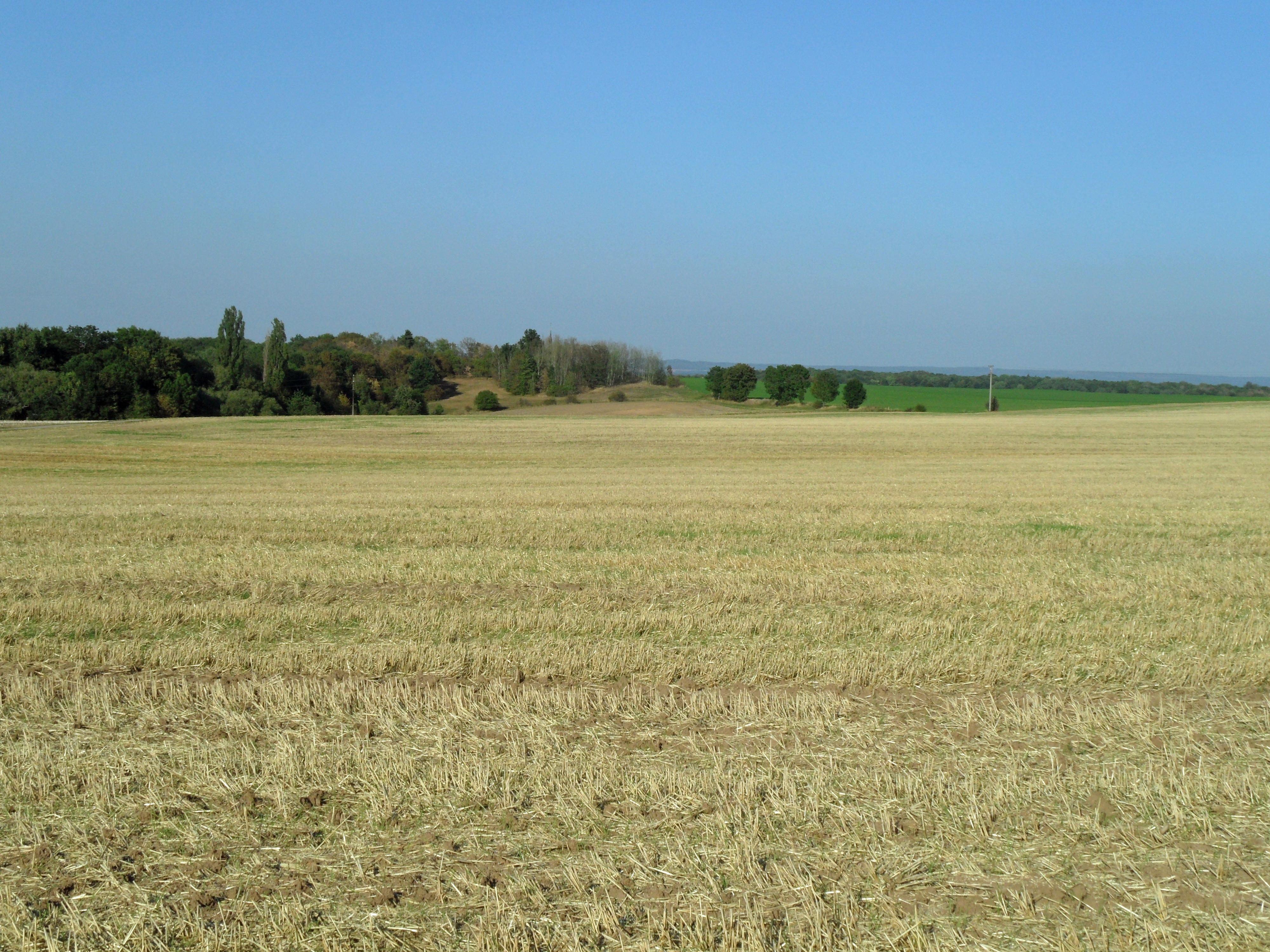 Bylany near Kutná Hora A. Neolithic Archaeological Site. View to East. Kutná Hora District, the Czech Republic.